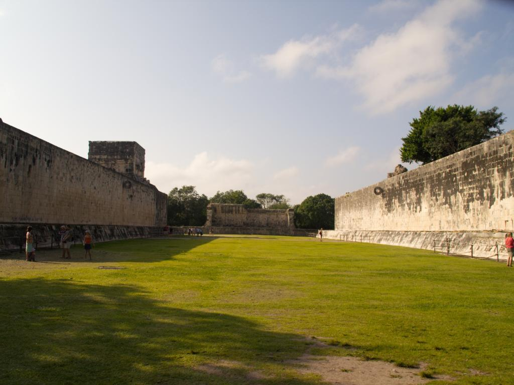 Ball court in Chicnen Itza.